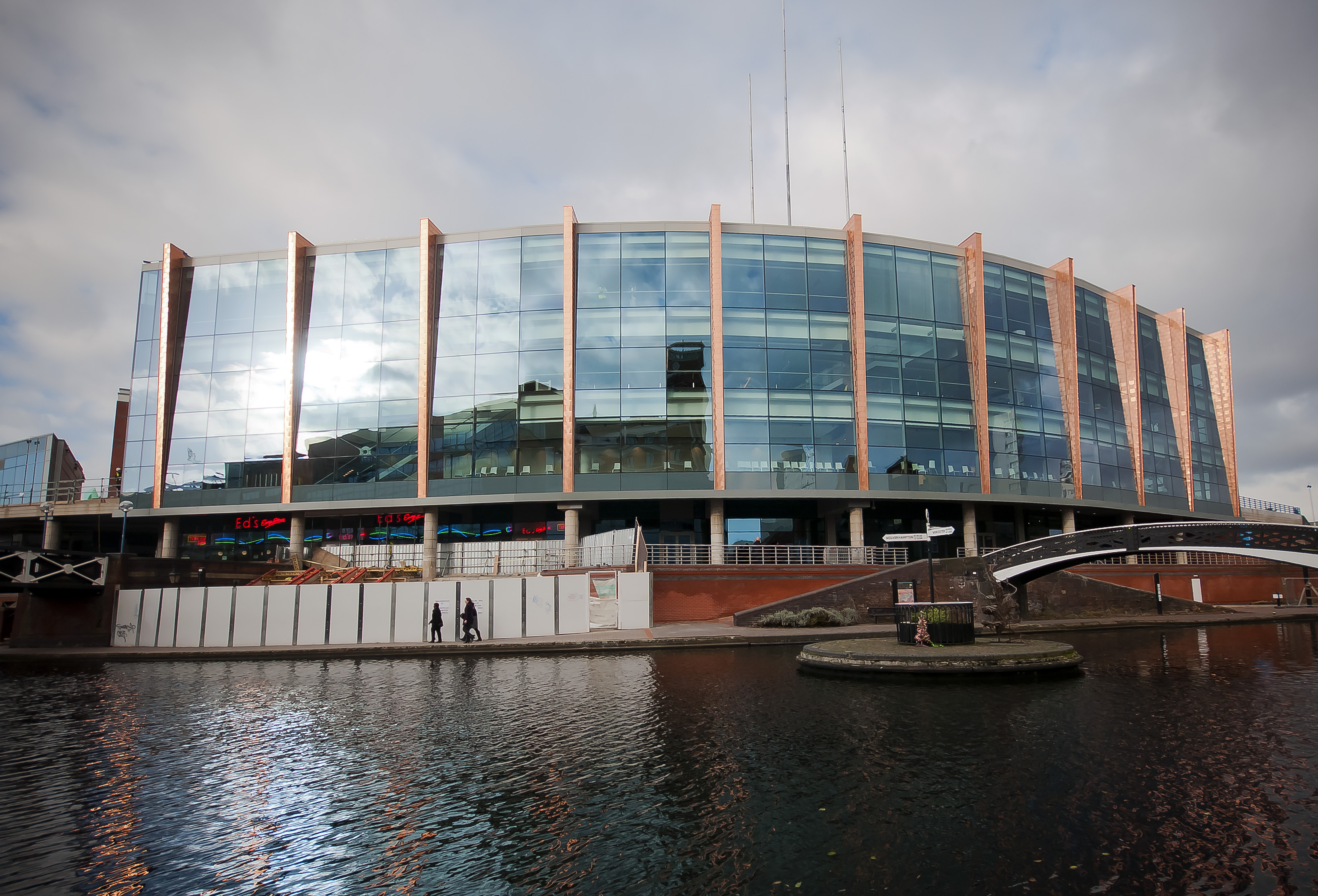 The Barclaycard Arena (formerly National Indoor Arena) in Birmingham after restoration in 2014.